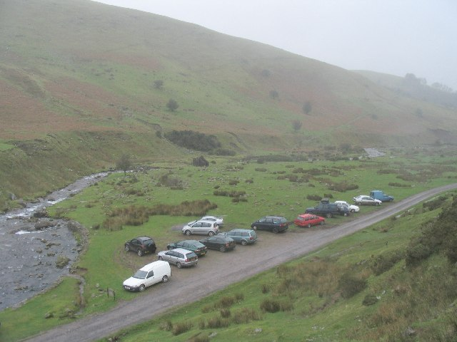 Car park below Llyn y Fan Fach. The less than extensive parking facilities for those wishing to walk up to Llyn y Fan Fach.